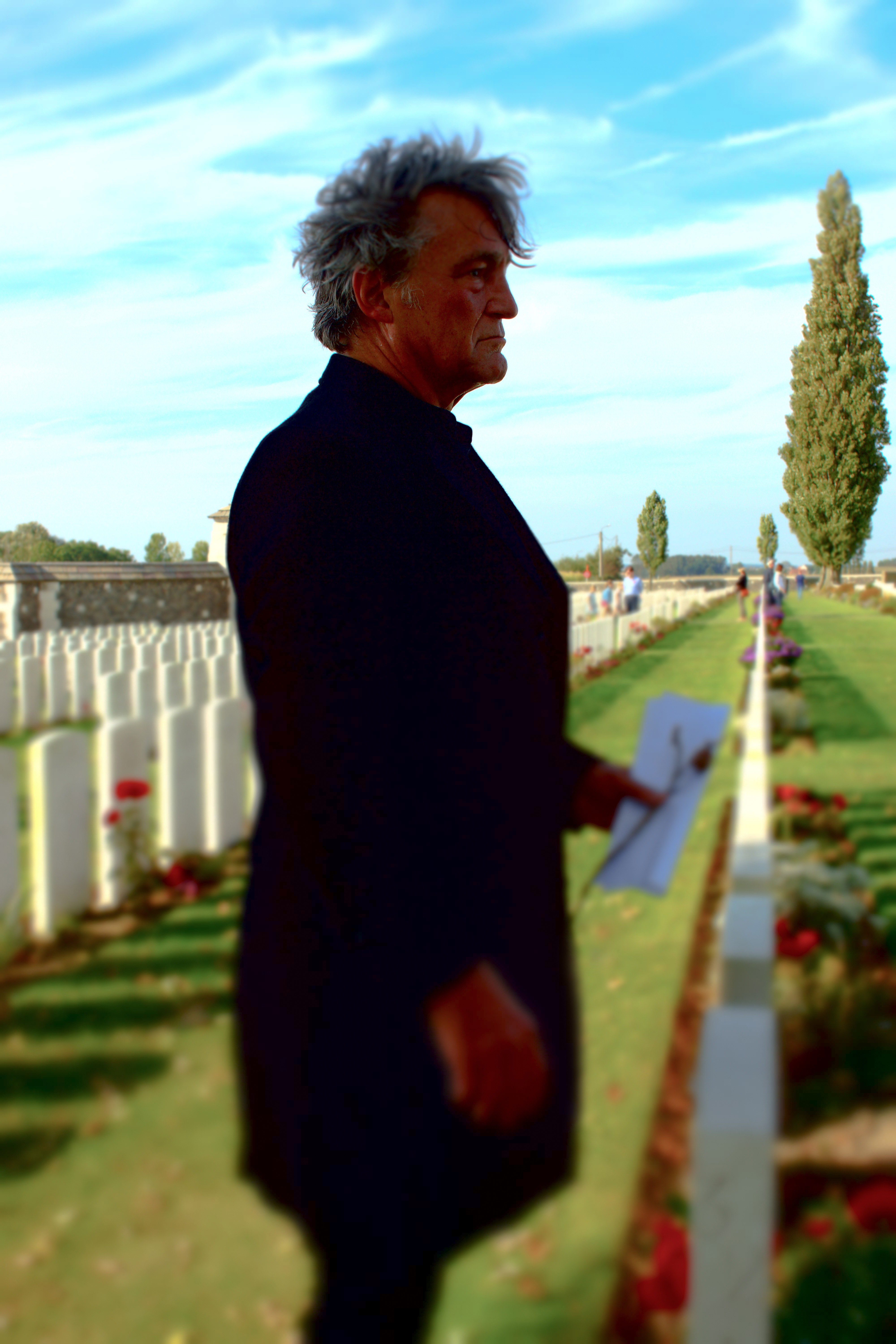 Raphael Ravenscroft visiting Tyne Cot war cemetery in Belgium